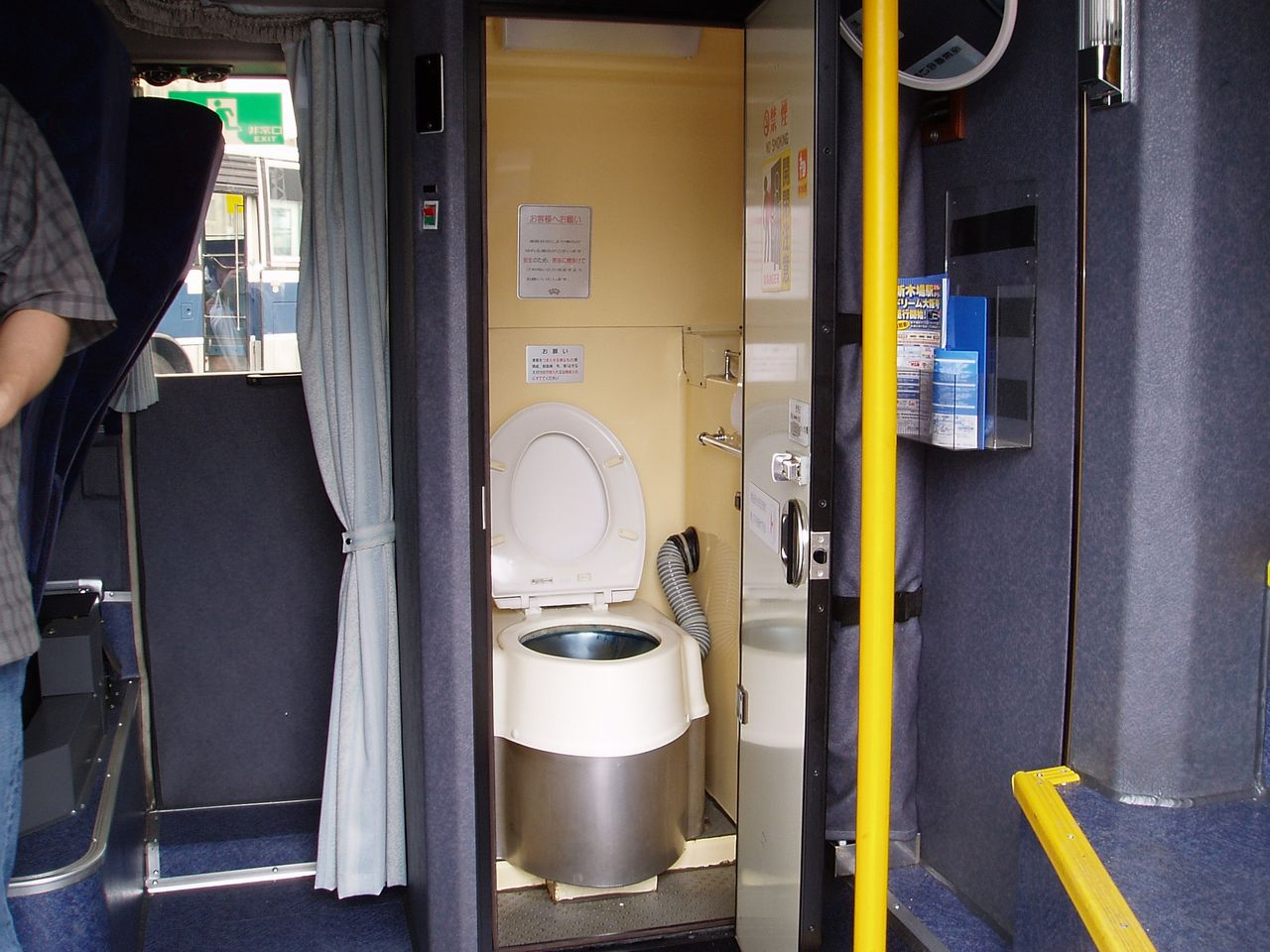 Type of washing in clear water lavatory in bus car.